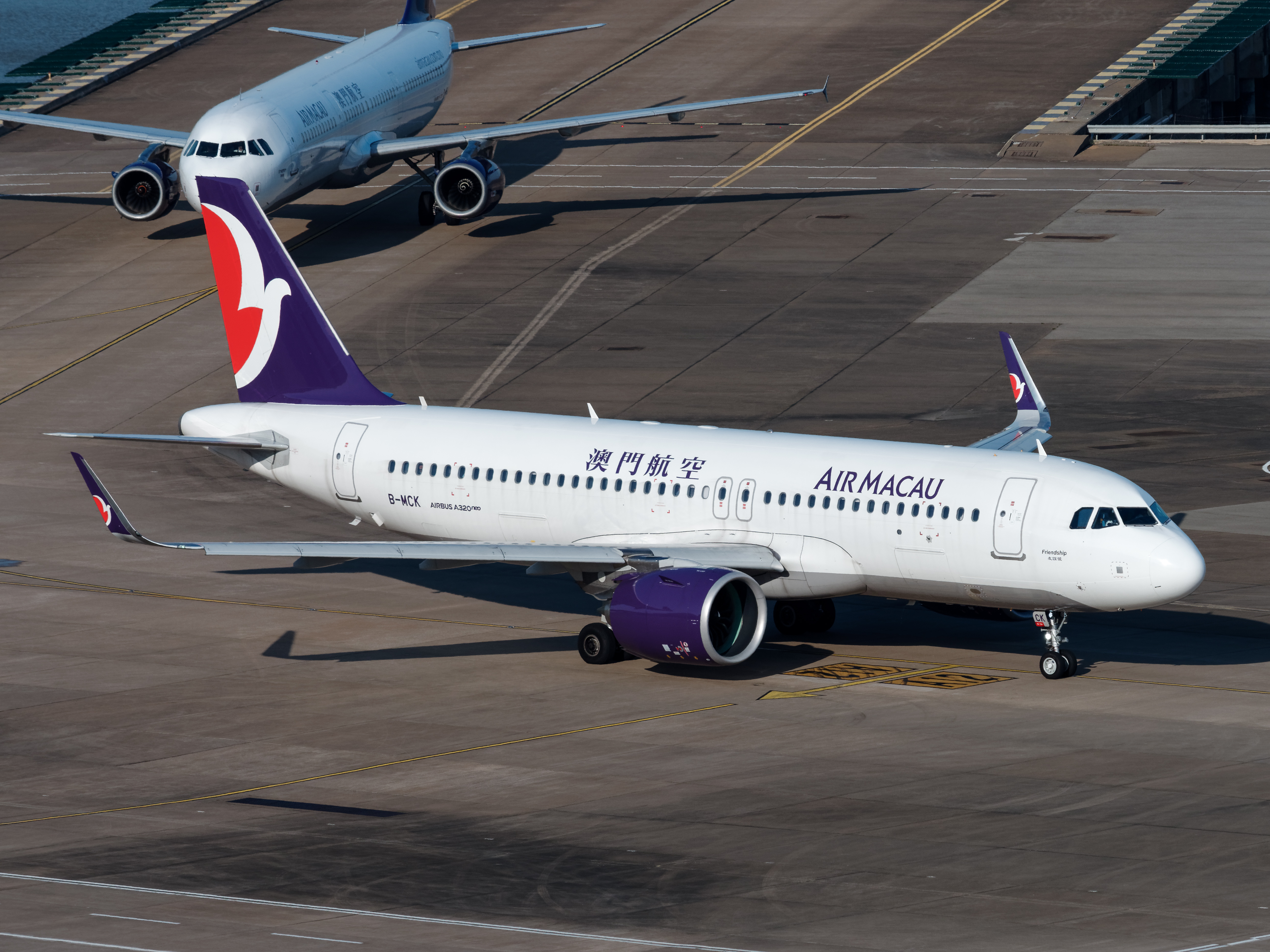 Air Macau Airbus A320-200 NEO B-MCK flying NX108 to Changzhou (CZX)